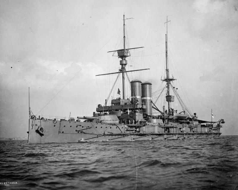 British battleship HMS BRITANNIA.